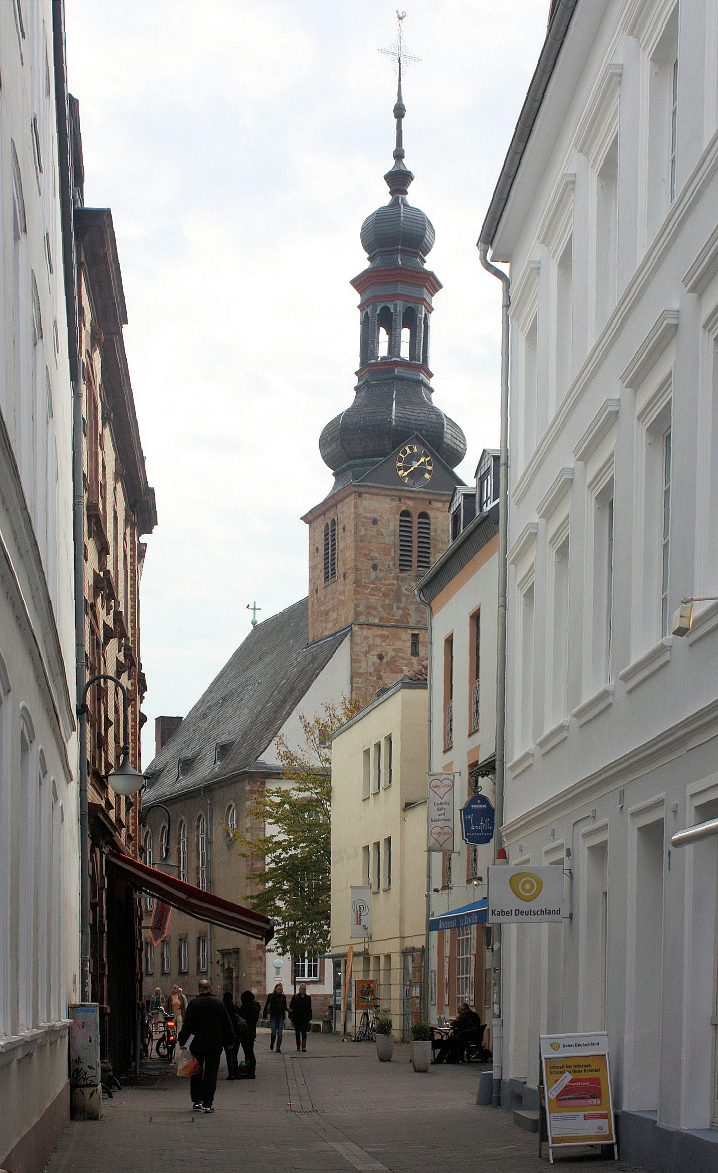 Saarbrücken, the church St. Johann and the Kronenstraße This is a photograph of an architectural monument. 29